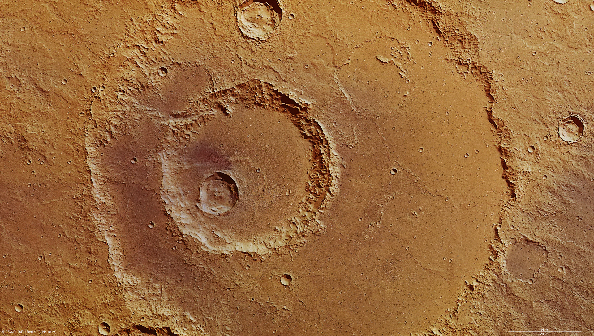 High-Resolution Stereo Camera (HRSC) nadir and colour channel data taken during revolution 10572 on 9 April 2012 by ESA’s Mars Express have been combined to form a natural-colour view of Hadley Crater. Centred at around 19°S and 157°E, the image has a ground resolution of about 19 m per pixel. The image shows the main 120 km wide crater, with subsequent impacts at later epochs within it. Evidence of these subsequent impacts occurring over large timescales is shown by some of the craters being buried. For further information, please click here. Credit: ESA/DLR/FU Berlin (G. Neukum), CC BY-SA 3.0 IGO Copyright Notice: This work is licenced under the Creative Commons Attribution-ShareAlike 3.0 IGO (CC BY-SA 3.0 IGO) licence. The user is allowed to reproduce, distribute, adapt, translate and publicly perform this publication, without explicit permission, provided that the content is accompanied by an acknowledgement that the source is credited as 'ESA/DLR/FU Berlin’, a direct link to the licence text is provided and that it is clearly indicated if changes were made to the original content. Adaptation/translation/derivatives must be distributed under the same licence terms as this publication. To view a copy of this license, please visit